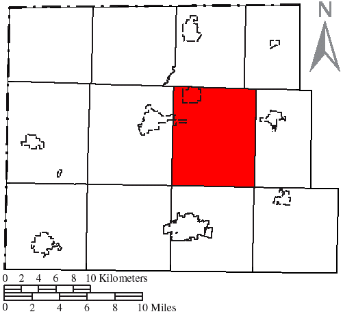 Made by the US Census and modified by myself